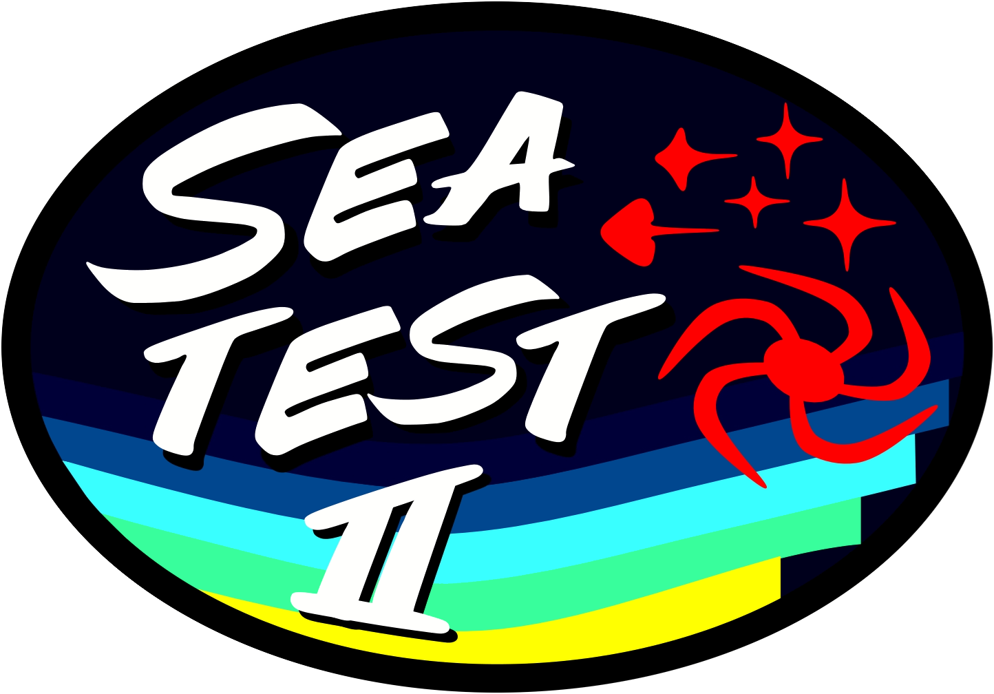 This is the patch of the NASA/ESA/JAXA SEATEST II mission.The artwork of the SEATEST II patch is derived from the Sea Hunt American adventure television series that aired from 1958 to 1961. The right section of the patch shows a red sting ray shape, turning into a star, and a galaxy-looking starfish. This evokes a strong analogy between the underwater and space environment.